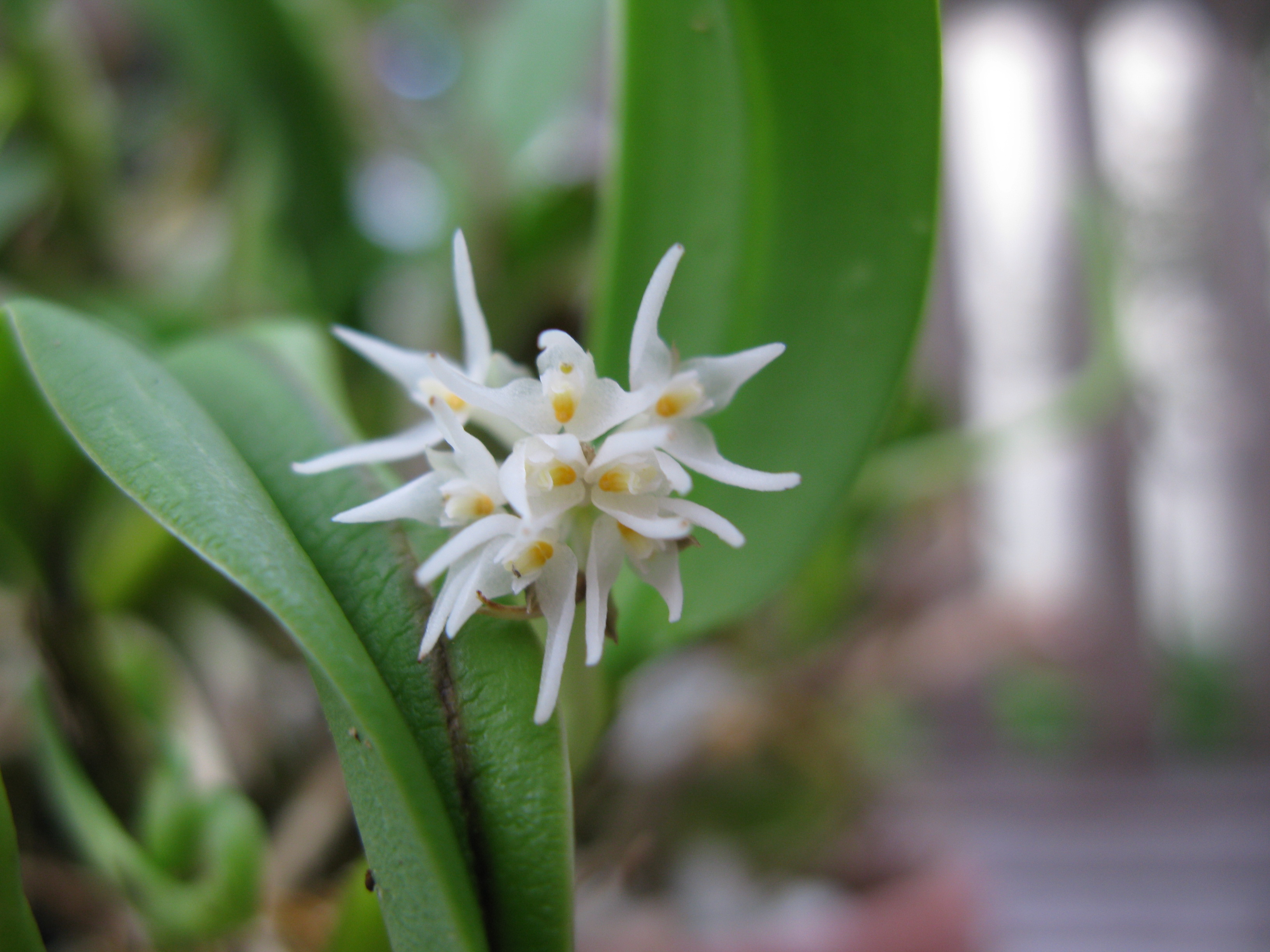 Bulbophyllum stenobulbon